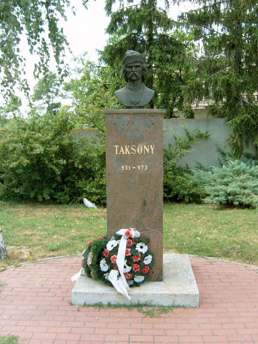 Taksony, House of Árpád (931-973)